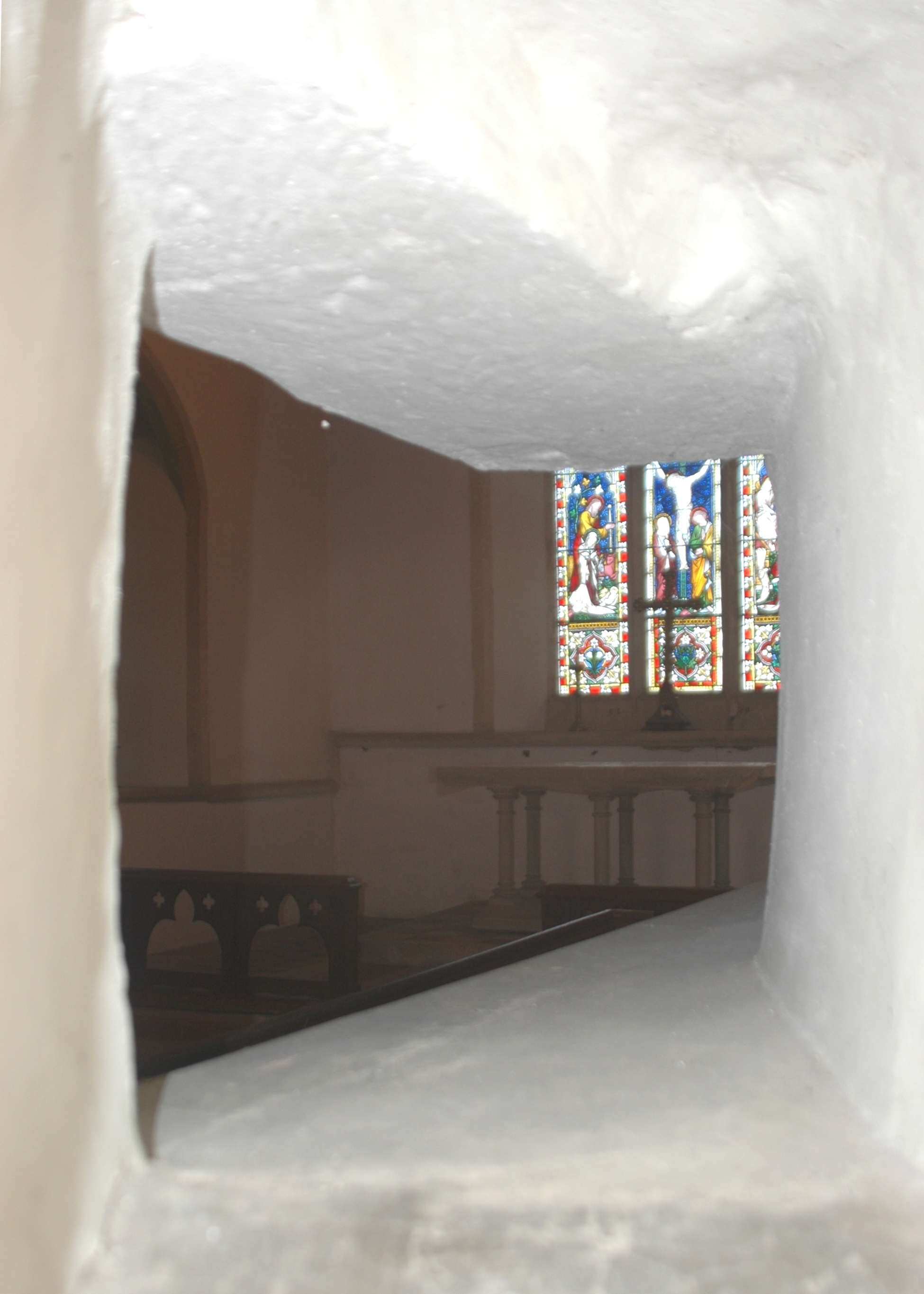 Hagioscope to the chancel of the Church of England parish church of the Blessed Virgin Mary, Beckley, Oxfordshire